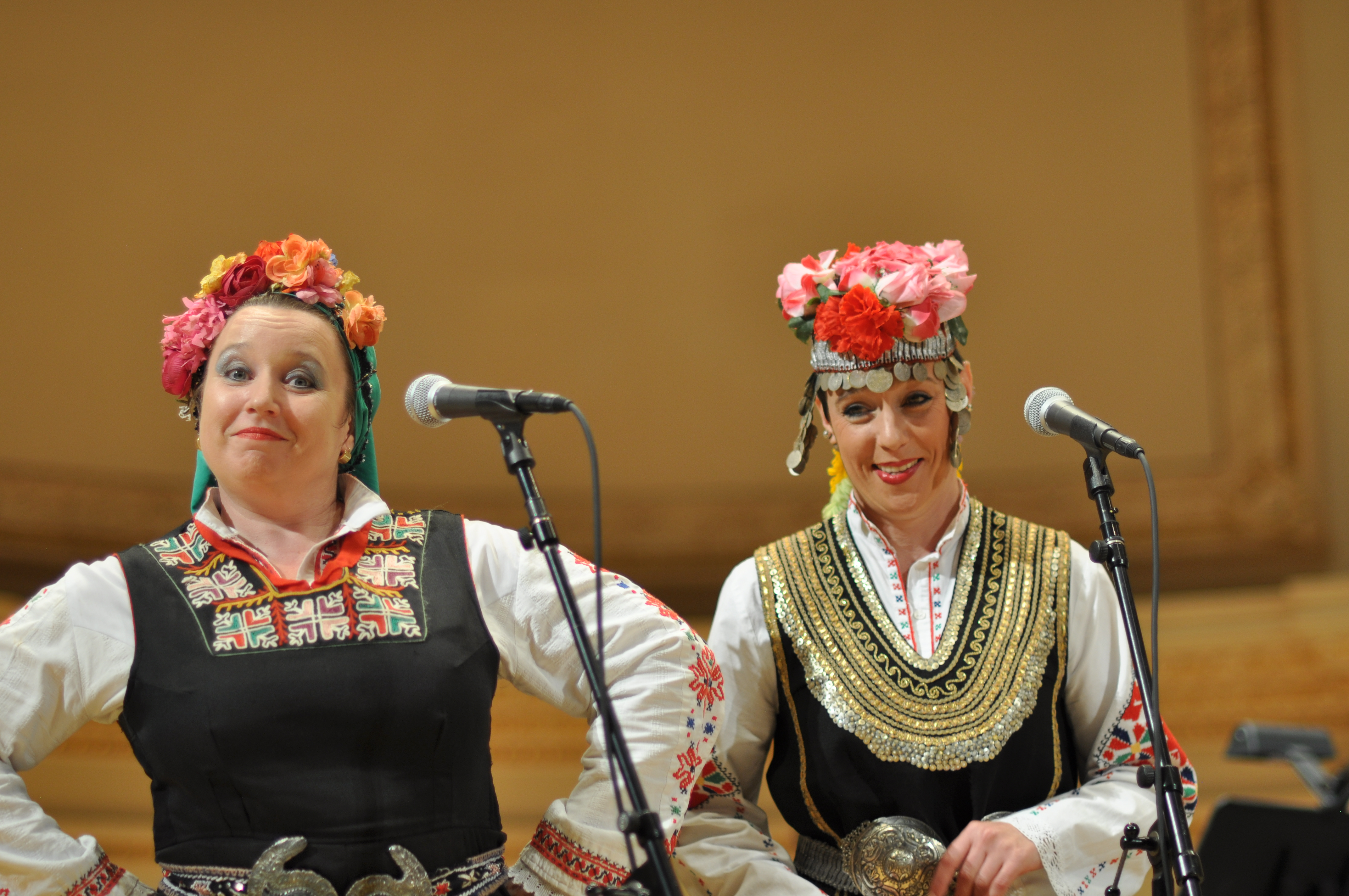 Bulgarian singers Ludmila Radkova and Daniela Radkova, performing at Carnegie Hall, New York, NY, USA